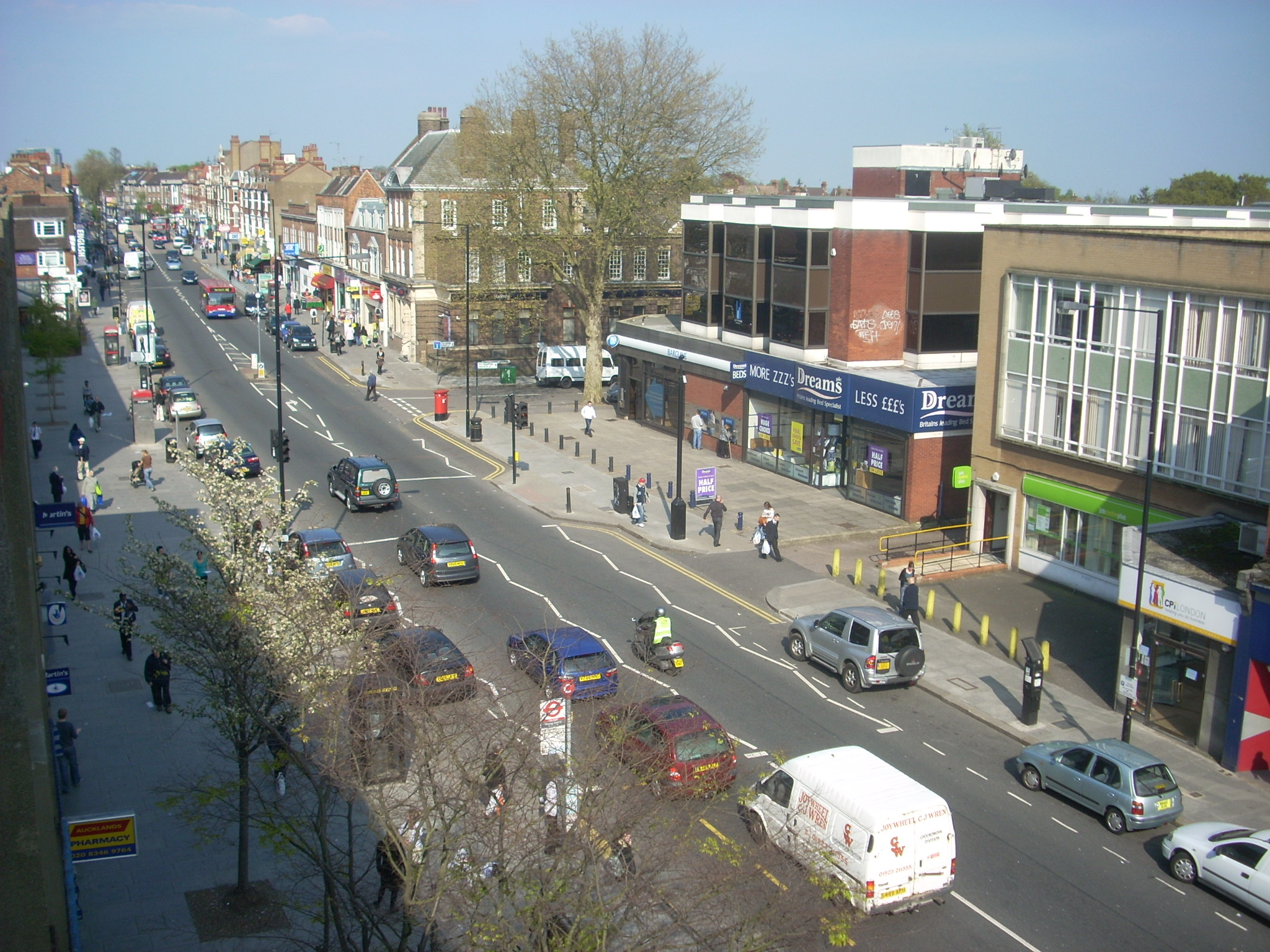 Ballards Lane, looking north, Finchley, London borough of Barnet, England